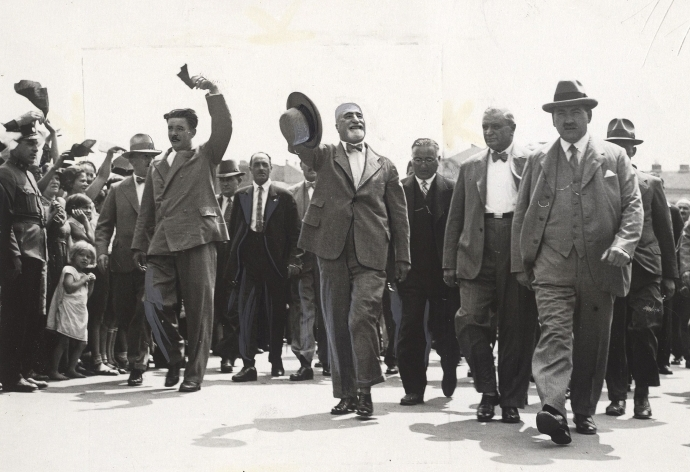 Opening of a residential complex by Mayor Karl Seitz in Vienna-Brigittenau, Friedrich Engels-Platz.